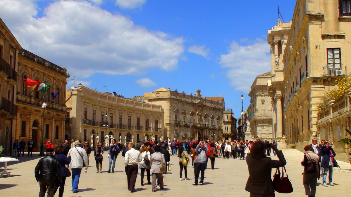 96100 Syracuse, Province of Syracuse, Italy